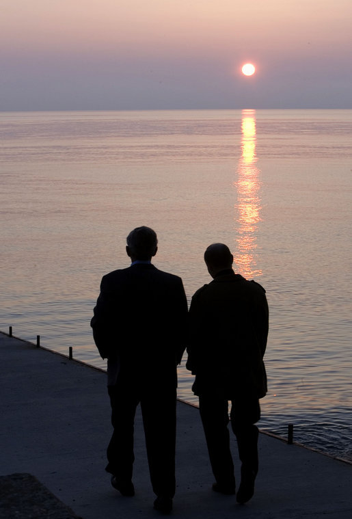 President George W. Bush and Russia's President Vladimir Putin take a sunset walk on a pier along the Black Sea during a visit by President and Mrs. Bush Saturday, April 5, 2008, to President Putin's summer retreat, Bocharov Ruchey, in Sochi, Russia.